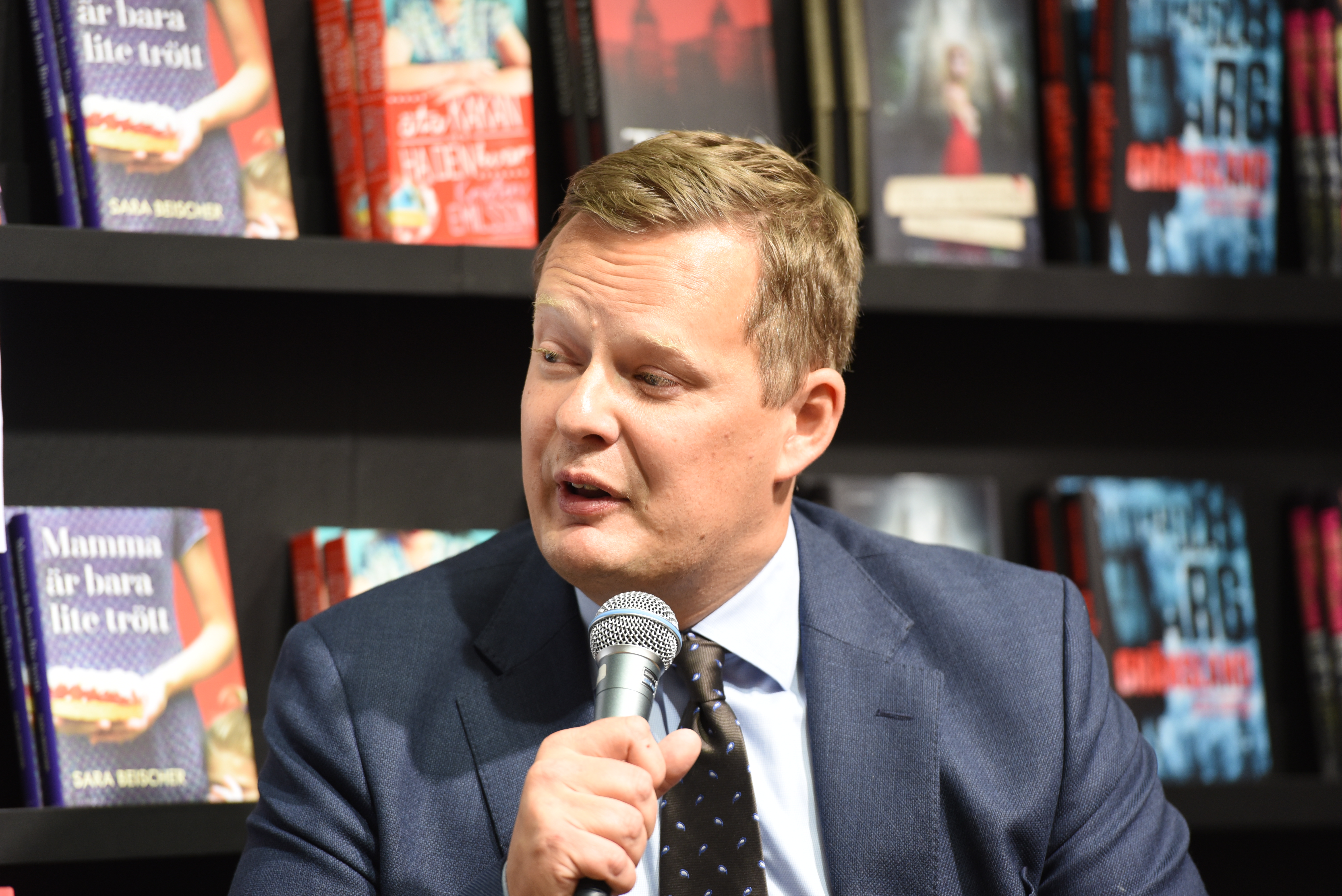 The Swedish journalist and writer Jens B Nordström at Göteborg Book Fair 2016.